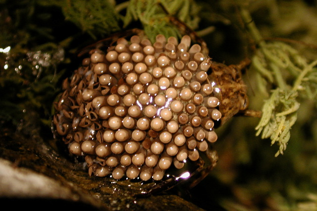 male belostomatid from Baja California.